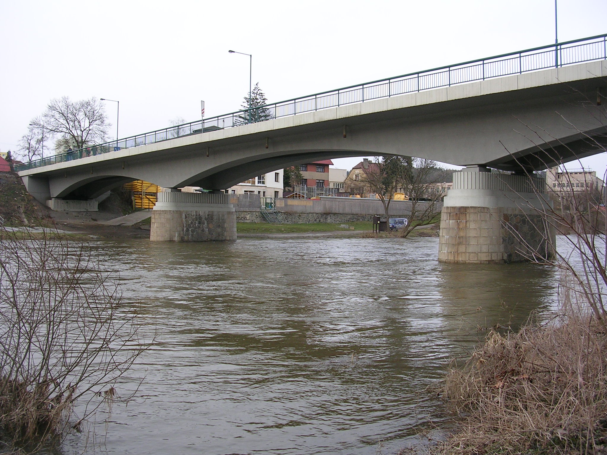 Bridge in Týnec nad Sázavou, the Czech Republic.